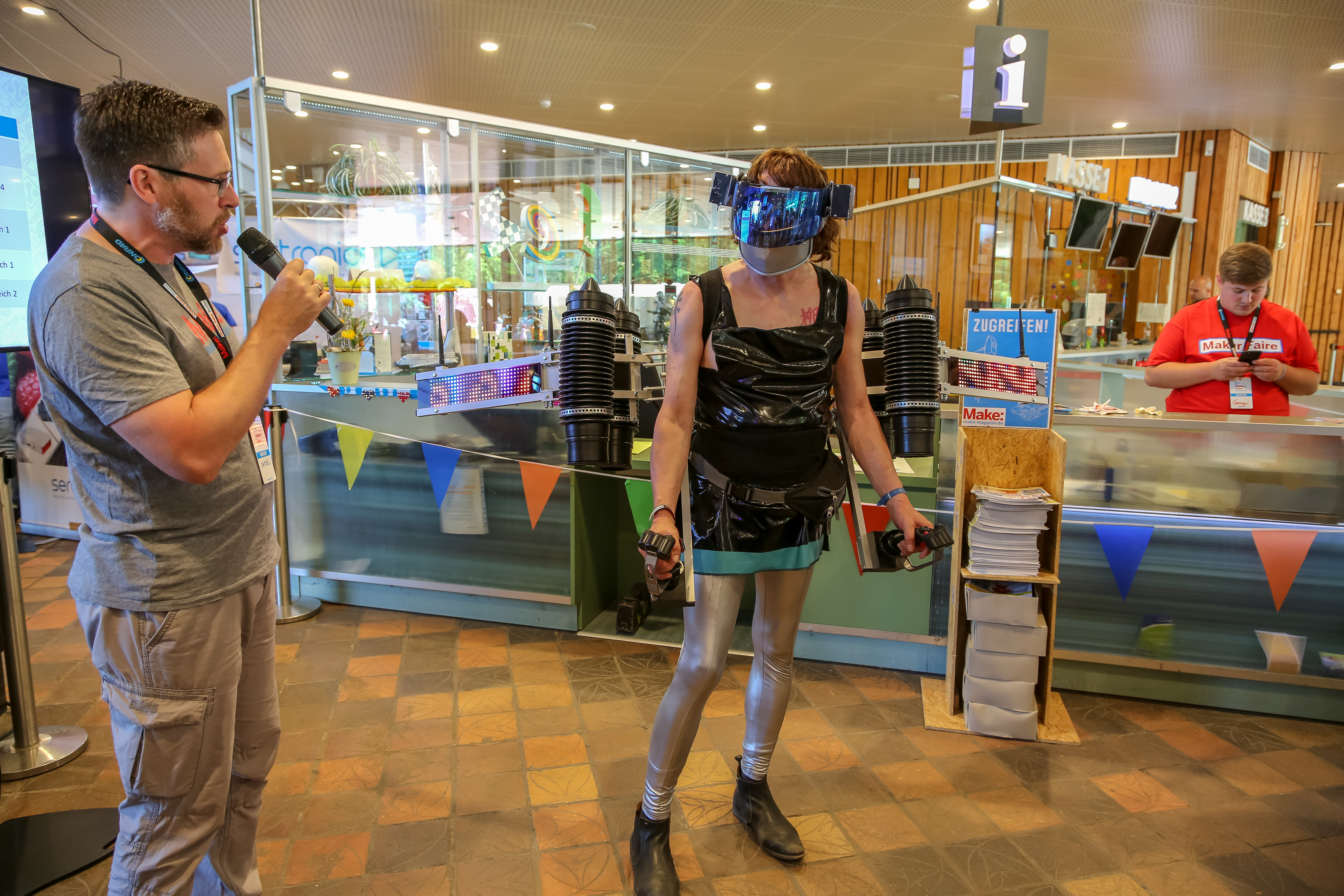 Maker Faire Berlin 2018, FEZ Wuhlheide